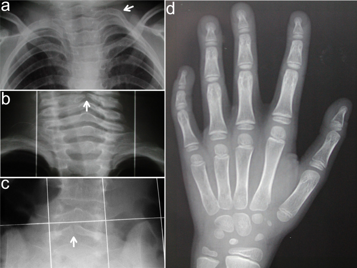 Common skeletal defects observed in KBG syndrome include supernumerary cervical rib (a, arrow), schisis of the posterior arch of cervical (b, arrow) and/or sacral (c, arrow) vertebrae. Left hand X-ray of a 10-year-old male KBG patient (d) showing shortened tubular bones especially of the III-IV-V metacarpus, the I distal and the V middle phalanges with clinodactylous V finger. Bone age is delayed in particular with respect to carpal bones.